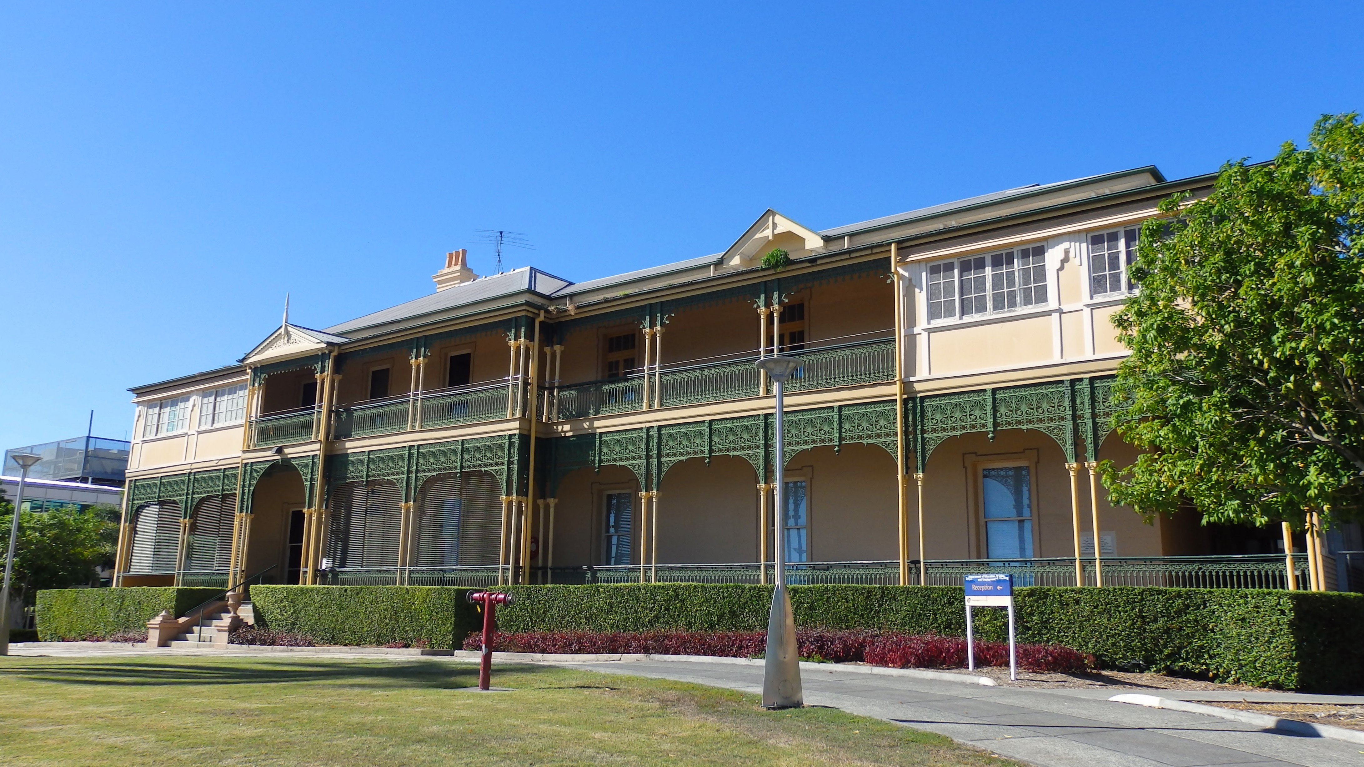 Queen Alexandra Home in May, 2016